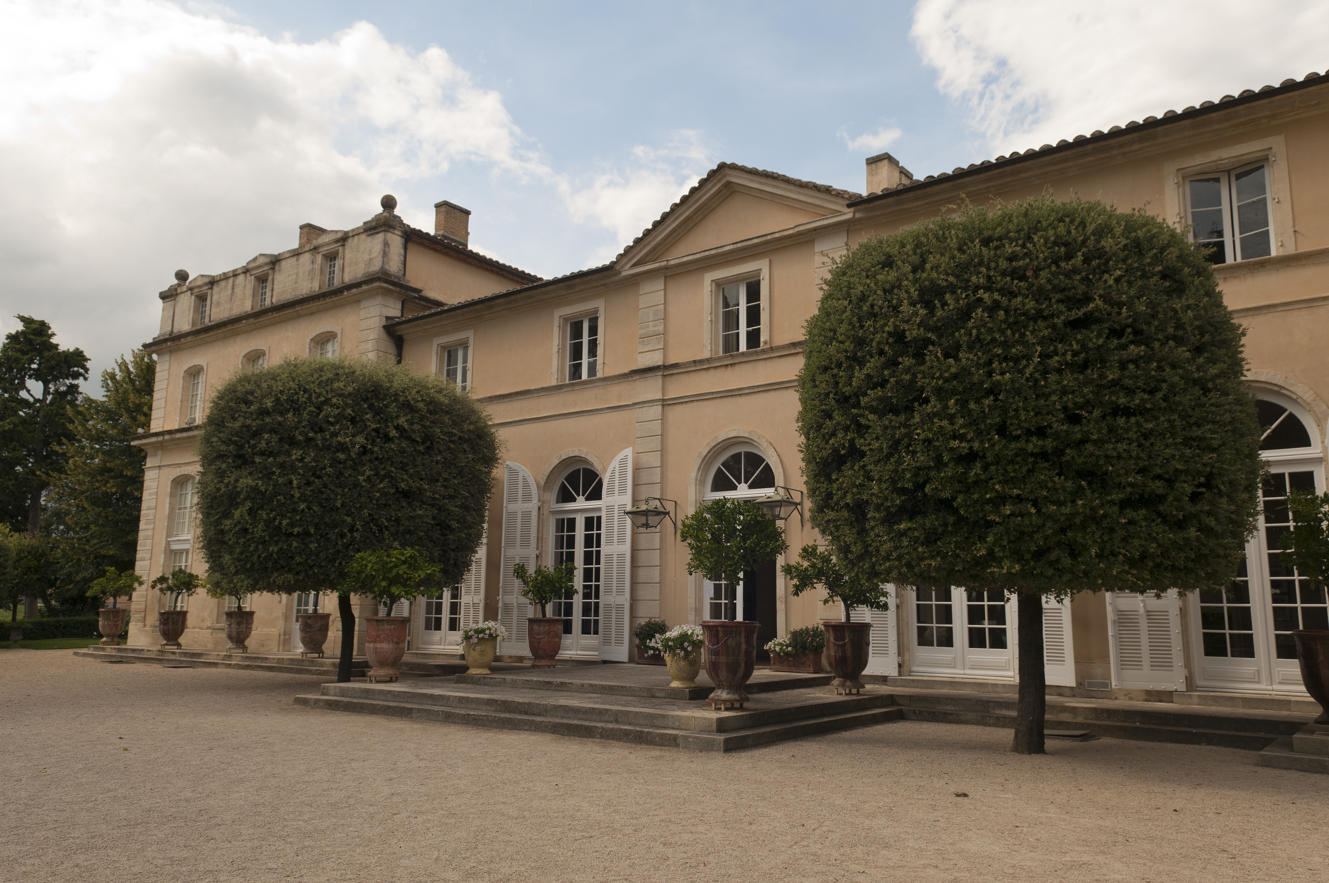 Château La Nerthe, Provence, France